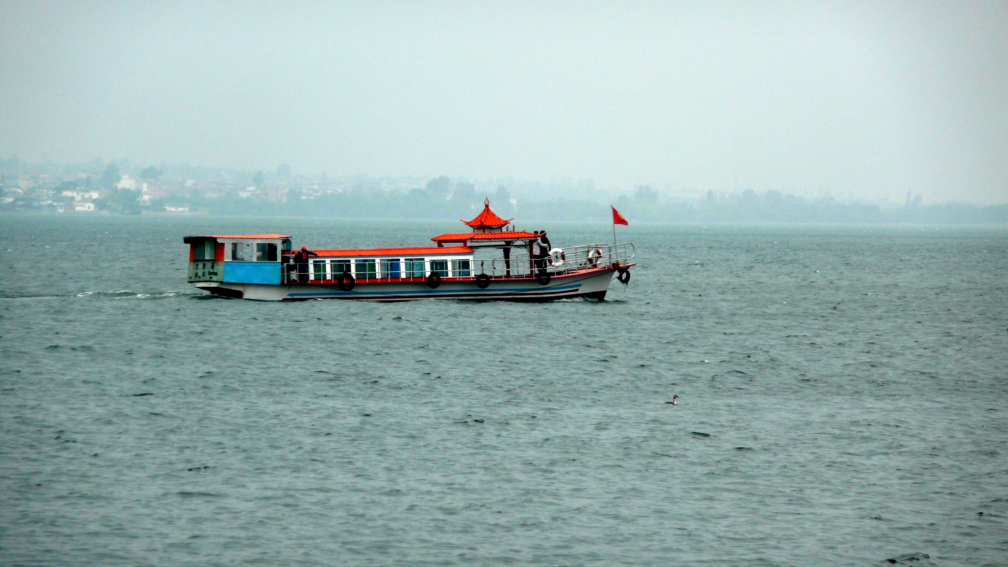 Erhai - Lake of Dali (Yunnan)